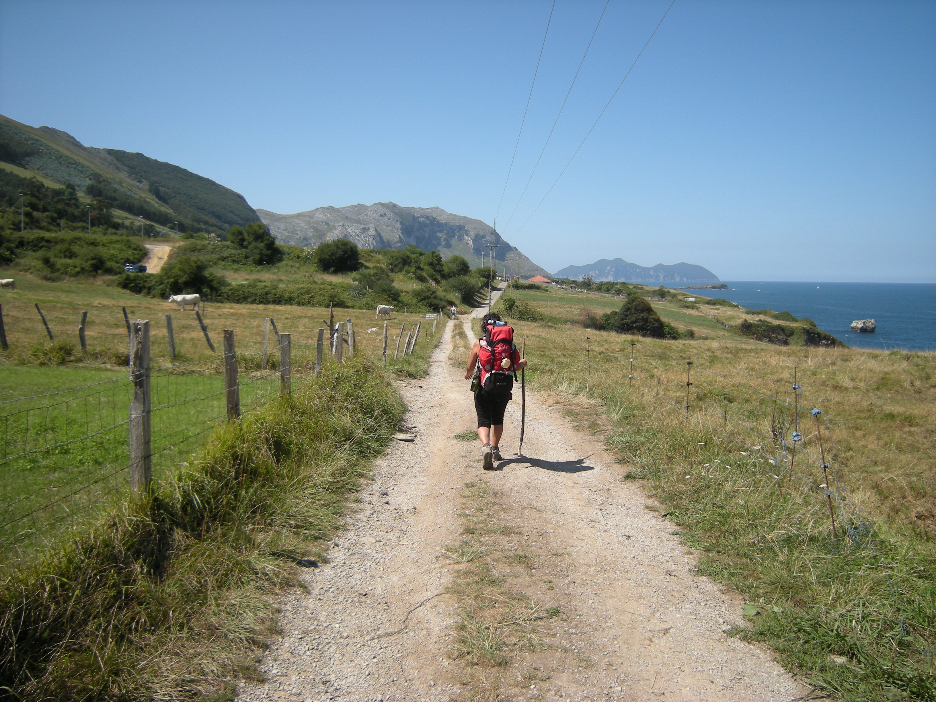 Way of Saint James of the North, from Cerdigo to Islares (Cantabria, Spain)